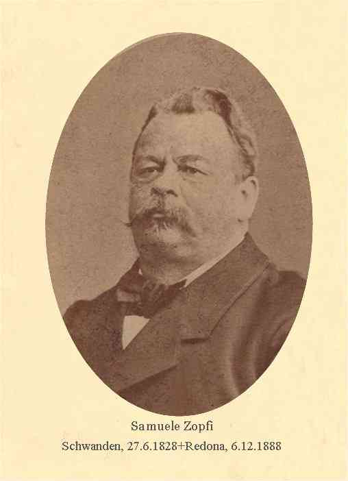 Samuele Zopfi senior (1828-1888), imprenditore svizzero a Redona, Bergamo, Lombardia, Italia